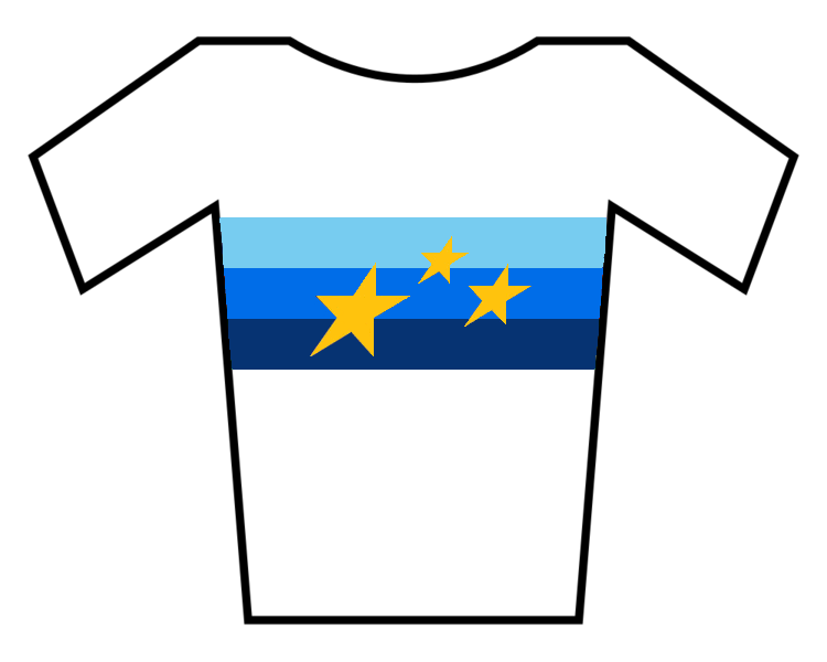 European Champions jersey - new graphics